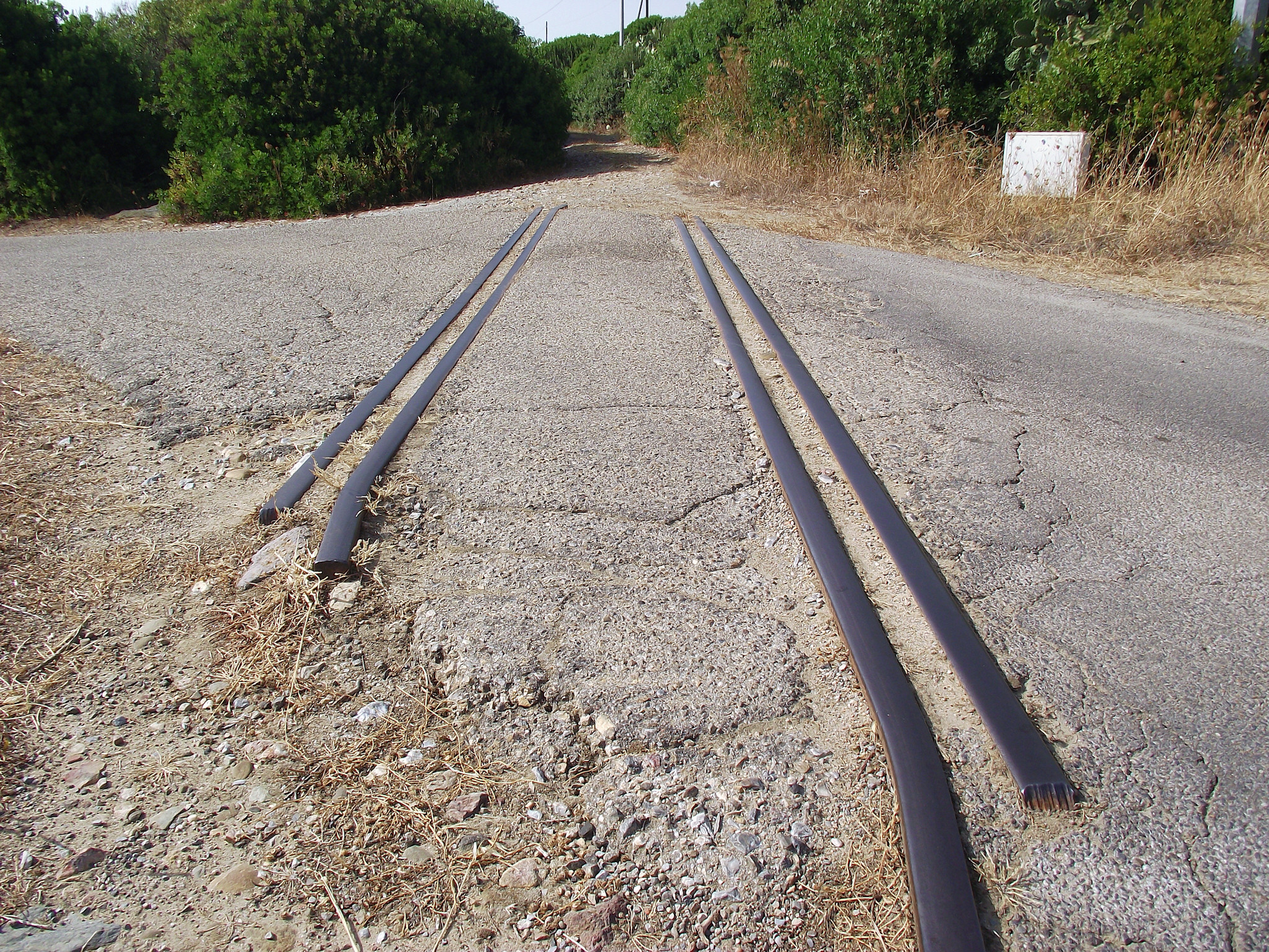 Vignole rails located in what was a level crossing along the discarded Ferrovie Meridionali Sarde railway San Giovanni Suergiu - Iglesias, along the road that leads to the Genna Gonnesa hamlet, in Carbonia, Sardinia, Italy. The gauge was 950 mm.